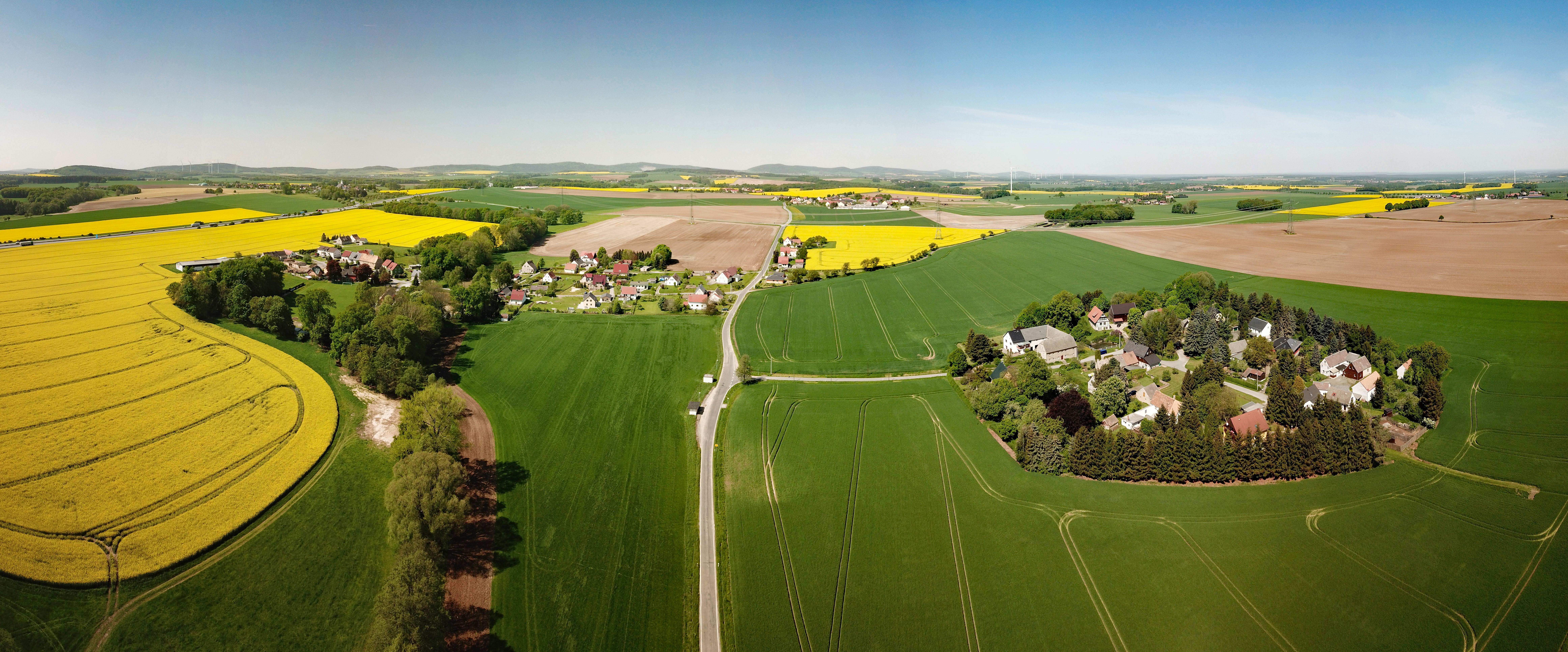 Kleinhänchen and Neraditz (Burkau, Saxony, Germany) Hornjoserbsce: Mały Wosyk a Njeradecy